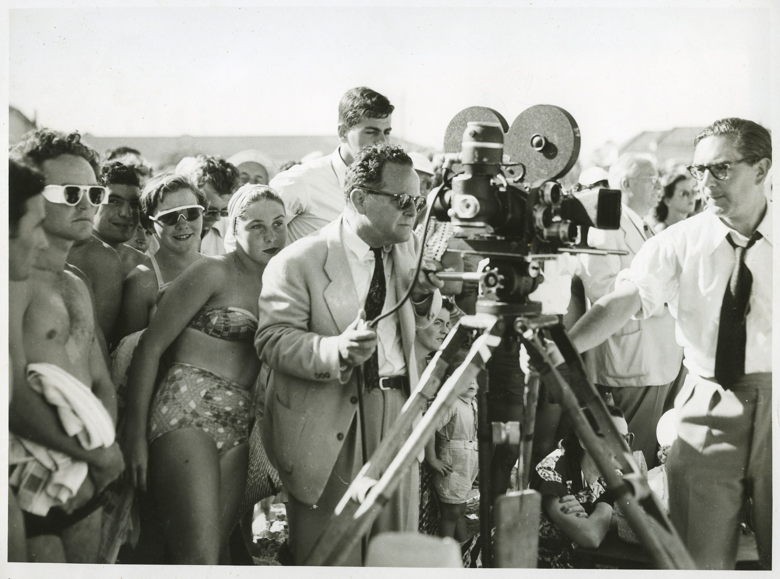 This black-and-white photograph, in landscape format, documents two men with a movie camera at Bondi Beach, Sydney Australia 1951. A crowd has formed around one side of the camera, with some of the crowd dressed only in their swimming costumes. The crew are filming a practice artificial respiration scene by lifesavers on the beach. James Fitzpatrick was an American documentary film maker who specialised in travel documentaries. He visited Australian shores in early 1951. During the three days RMS CARONIA was in Sydney in February 1951 Fitzpatrick filmed the sites and attractions of the city. The ANMM undertakes research and accepts public comments that enhance the information we hold about images in our collection. Photographer: Henry Gawthorpe Object no. 00018090 ANMM Collection Gift from Henry Gawthorpe